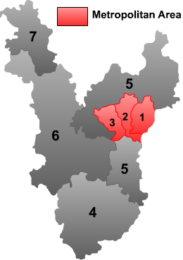 Map of Wuzhou in Guangxi AR